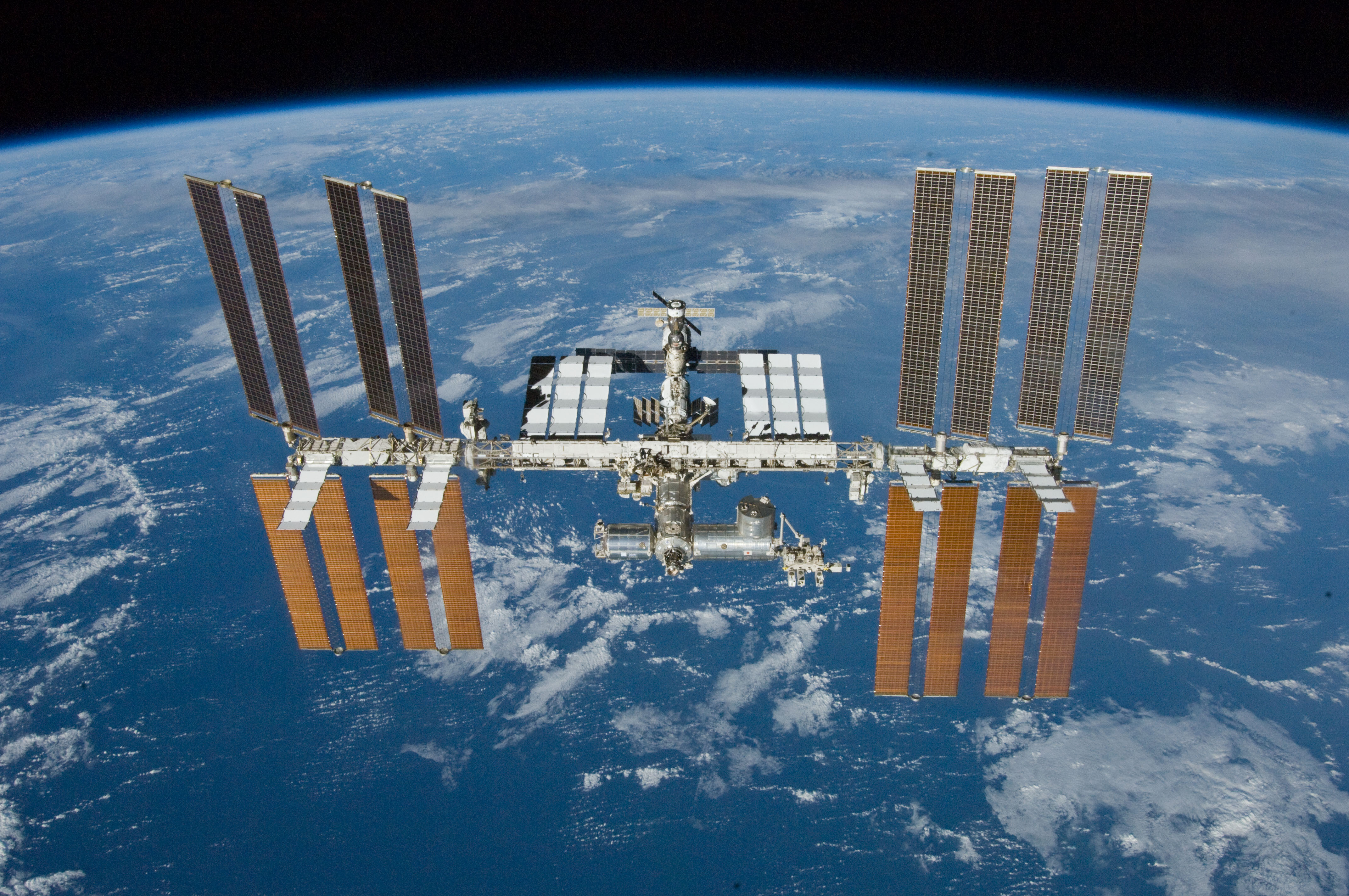 The International Space Station is featured in this image photographed by an STS-132 crew member on space shuttle Atlantis after the station and shuttle began their post-undocking relative separation. Undocking of the two spacecraft occurred at 10:22 a.m. (CDT) on May 23, 2010, ending a seven-day stay that saw the addition of a new station module, replacement of batteries and resupply of the orbiting outpost.